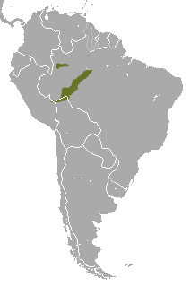 White-lipped Tamarin (Saguinus labiatus) range